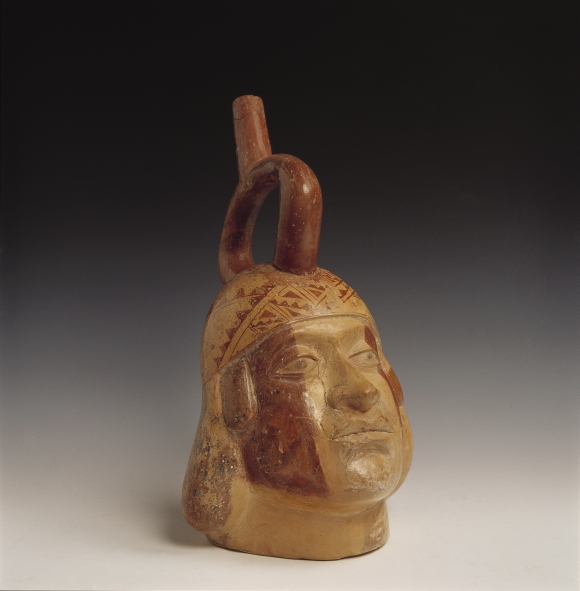 Moche ceramic vessel depicting a man wearing a turbant